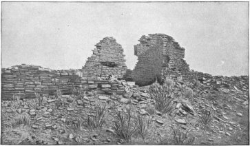 Existing walls of the Kin Tiel ruins